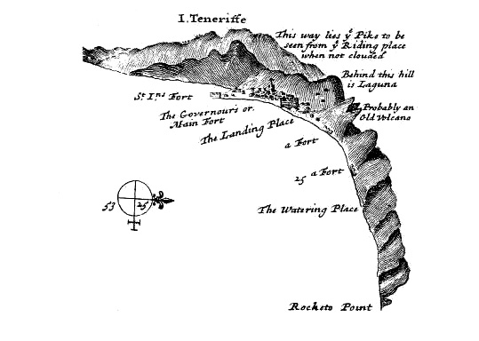 Part of the map of the Canary Islands by William Dampier, 1699 (Project Gutenberg eText 15675).